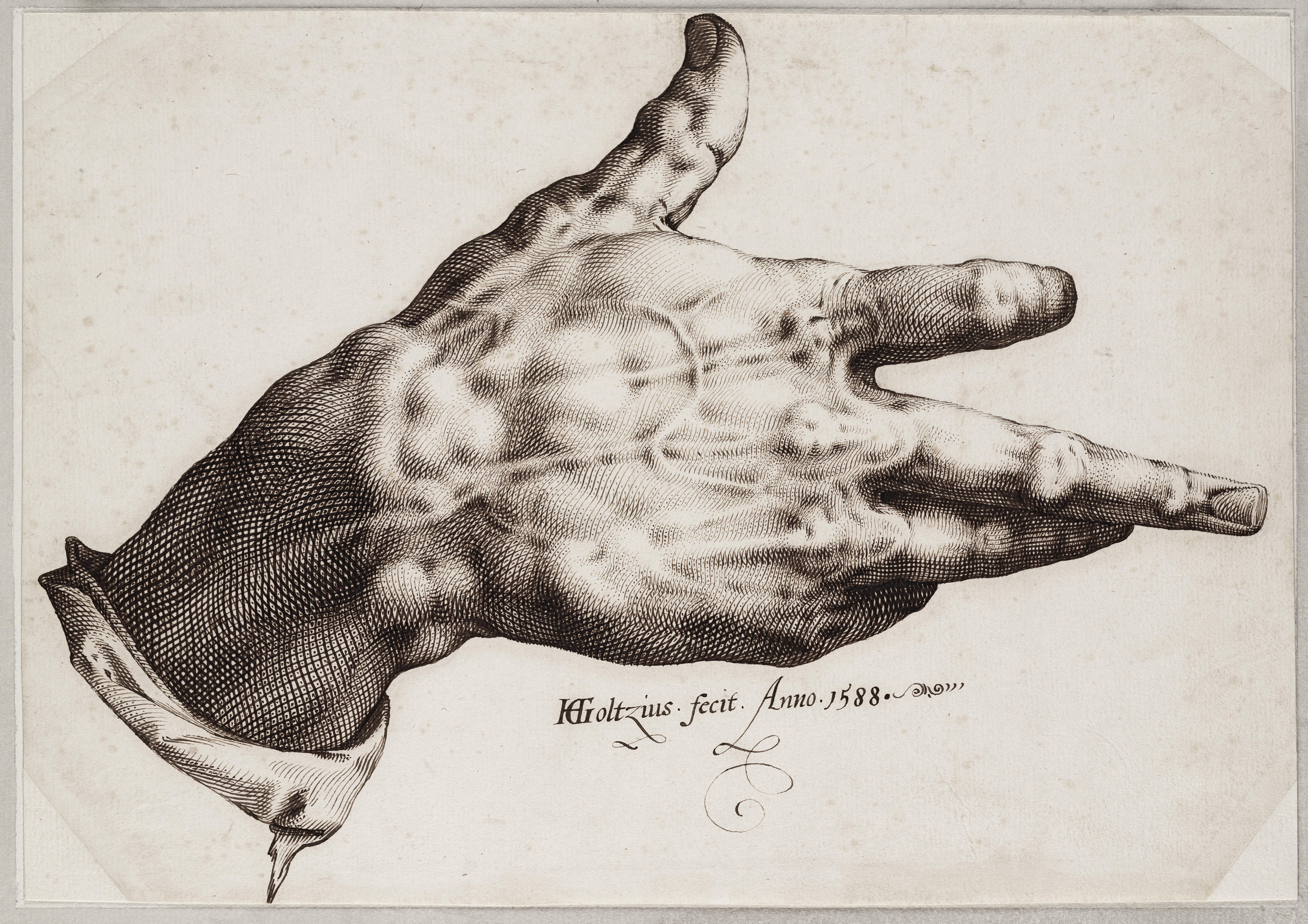 Goltzius's Right Hand, 1588 - Pen and brown ink ; 9 x 12 5/8 in. (23 x 32.2 cm) - Teylers Museum, Haarlem